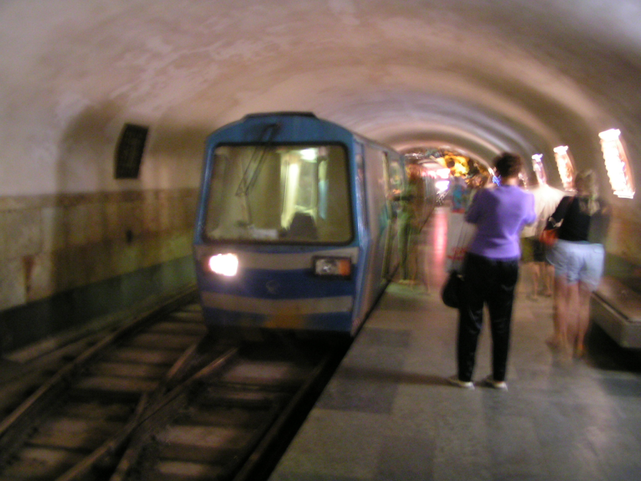 Electric train EP "Tourist" № 001. Narrow gauge railway in the Novoafonskaya cave, 2006